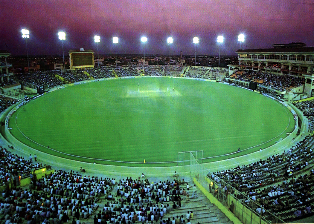 "I took this picture of PCA Stadium, in Mohali. no url."